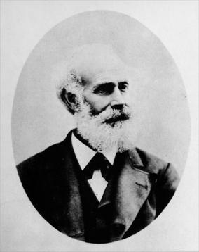 James Mason Hutchings (1820 - 1902) Portrait from In the Heart of the Sierras (1888).